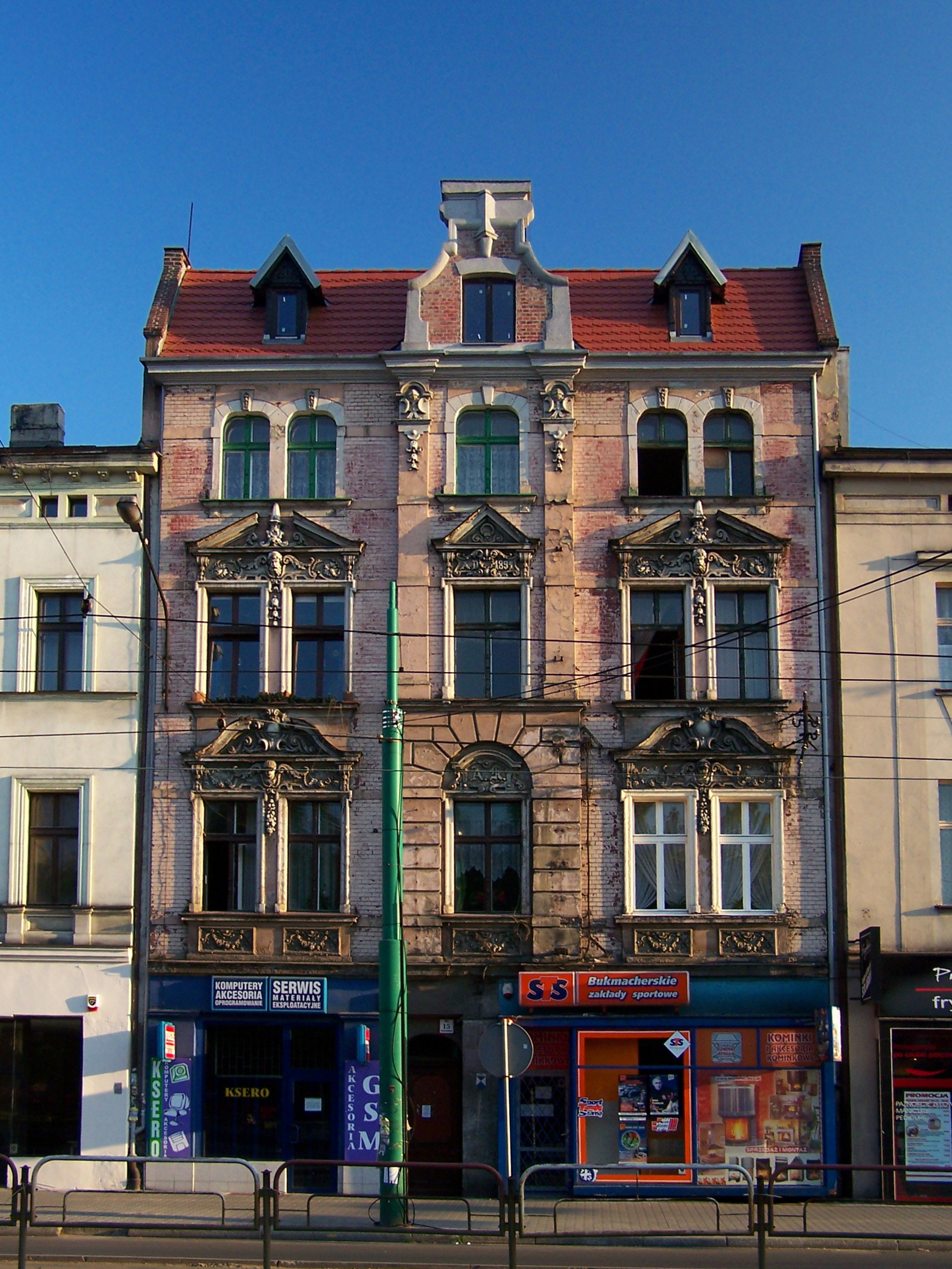 Warszawska Street in Katowice (Poland).